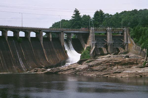 Stevenson Dam on the Housatonic River in Connecticut, which forms Lake Zoar behind it. Connecticut State Route 34 uses the dam as a bridge to continue north.